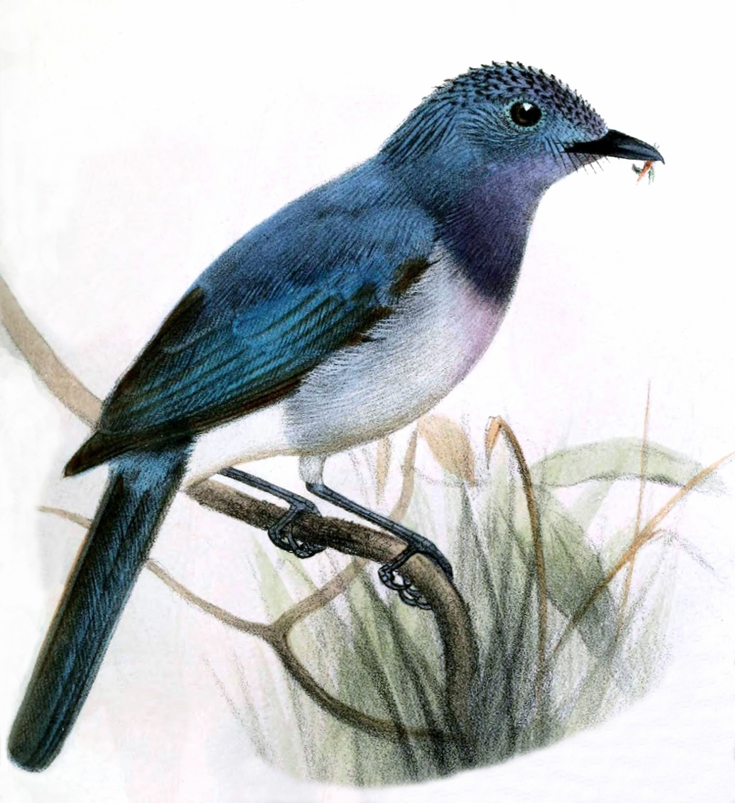 Adult females of Celestial Monarch